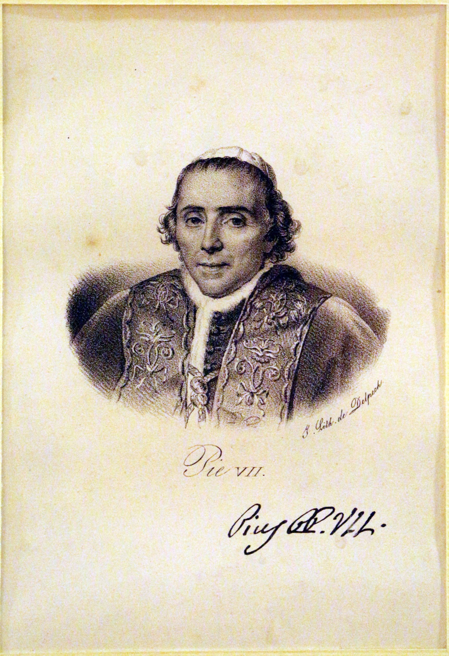 Palazzo Socci, Florence. Actual owners of Palazzo Socci are descendants of the Chiaramonti family from Cesena, and they own several memories of their pope Pius VII. So this autograph is very likely to be original.